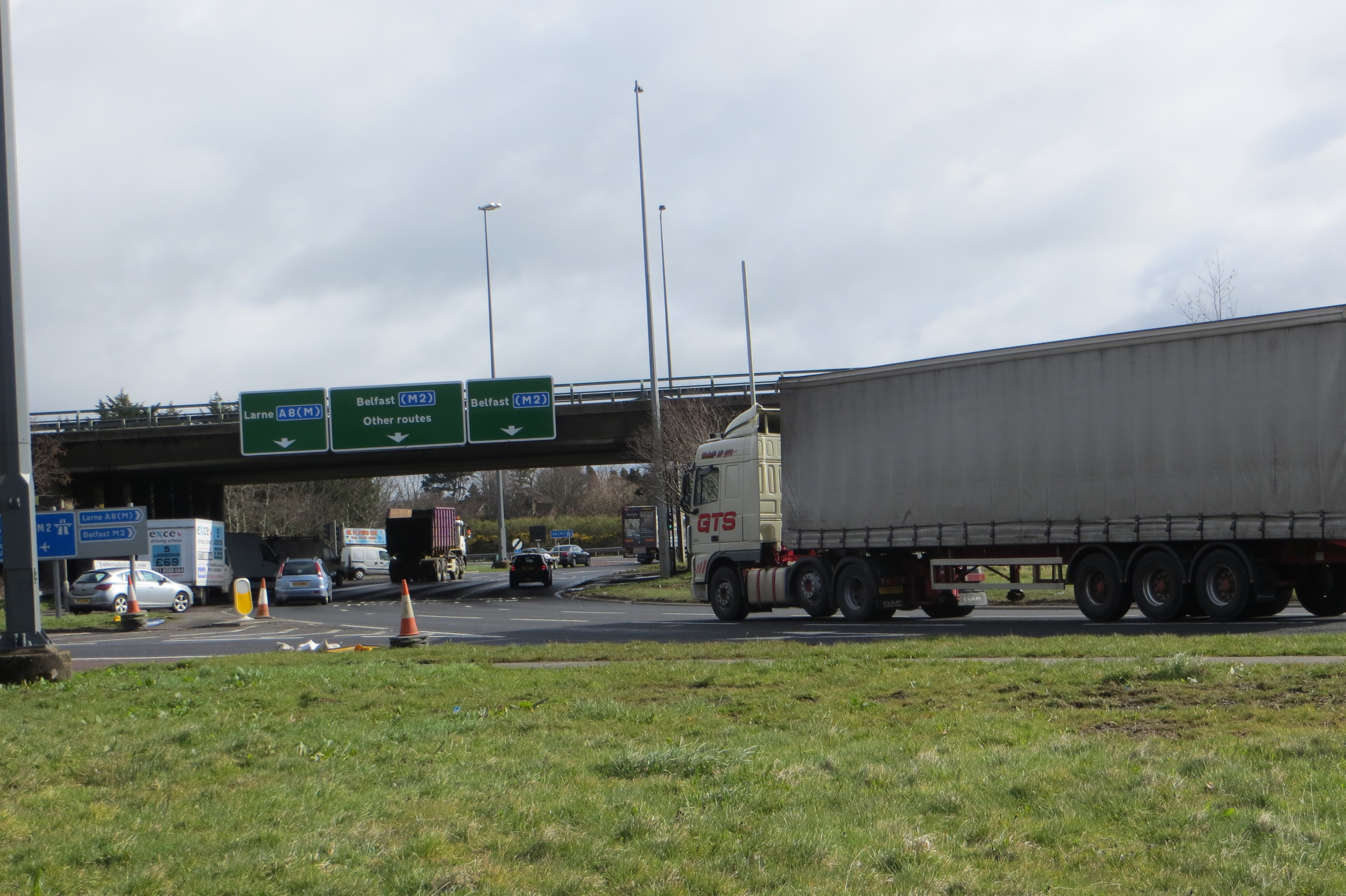 Sandyknowes roundabout